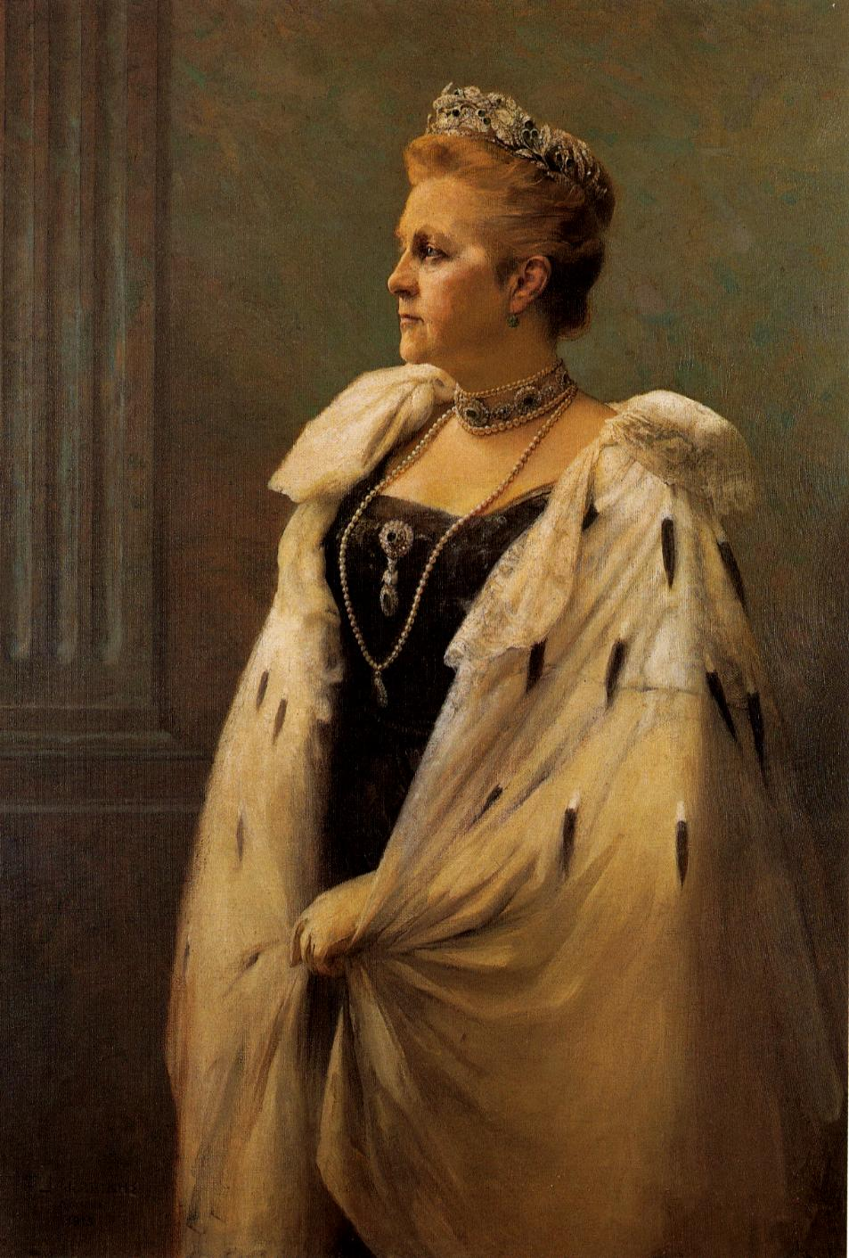 Portrait of Queen Olga of Greece (1851-1926)